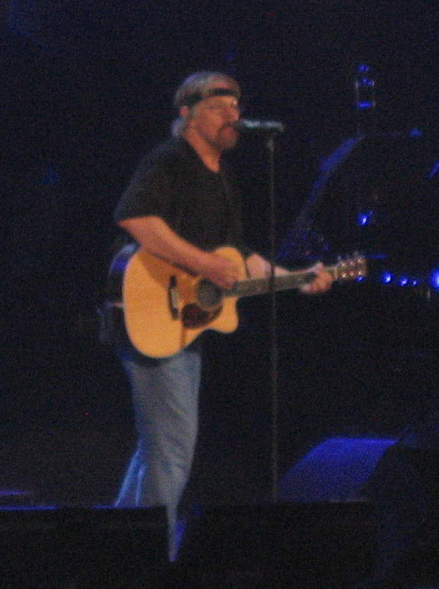 Bob Seger performing at Mohegan Sun Casino; Uncasville, CT, 2007.